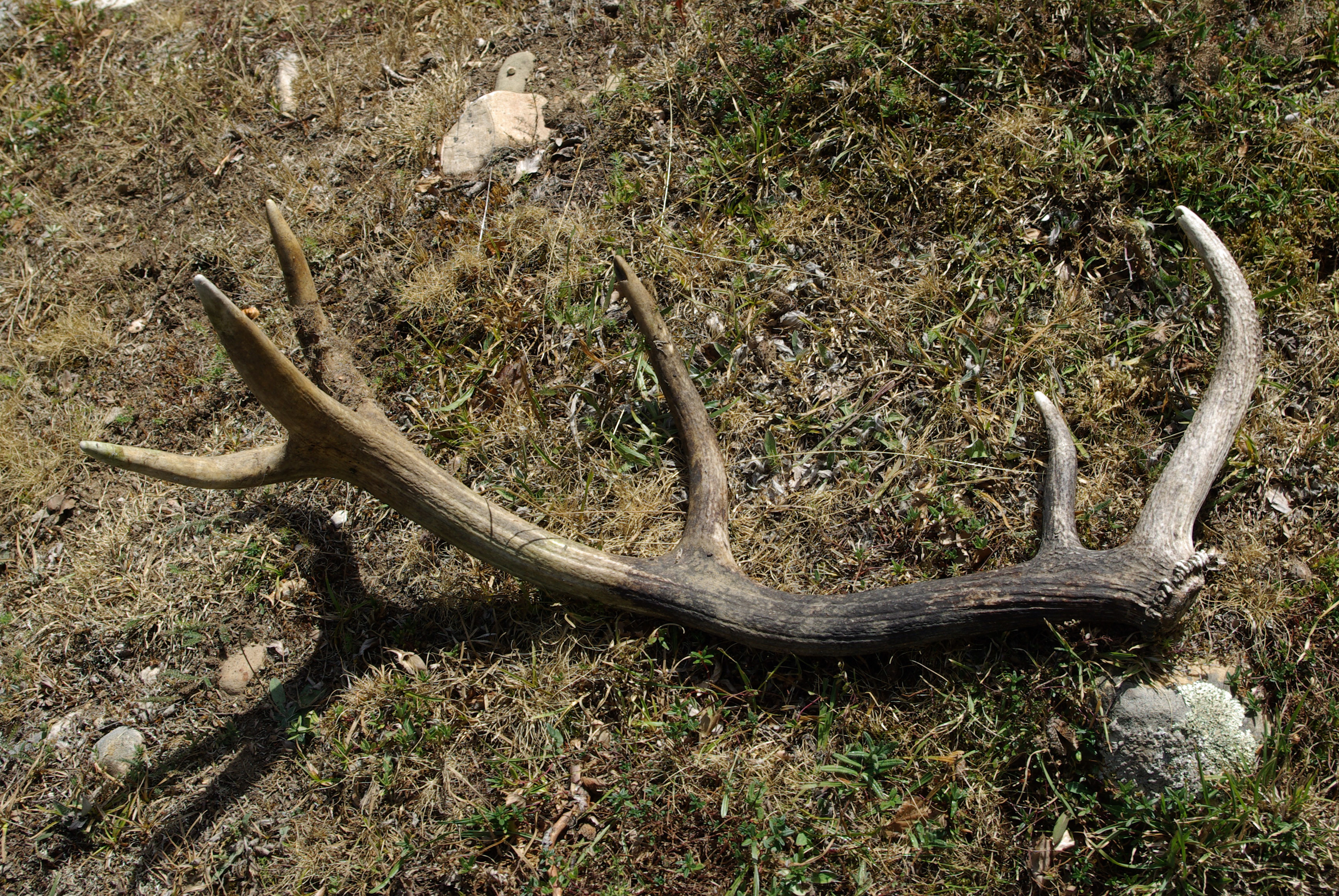 Horn of Red Deer (Cervus elaphus) near Riaño, León (Spain)